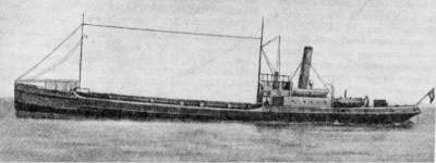 Steam chaland Yegurcha.